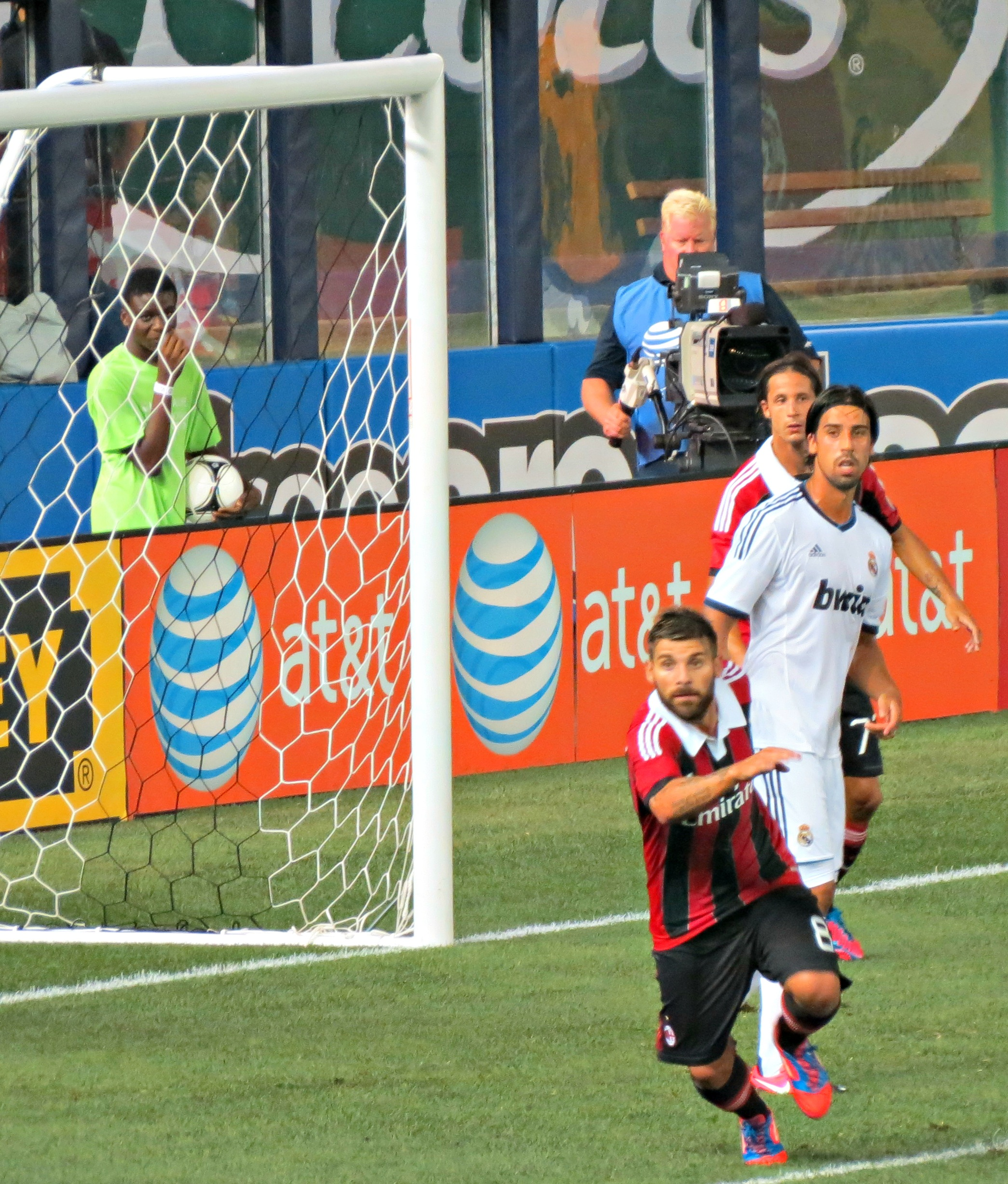 Antonio Nocerino of A.C. Milan in action for A.C. Milan against Real Madrid – Antonio Nocerino charging in front of Real Madrid's Sami Khedira and A.C. Milan's Luca Antonini in the 2012 World Football Challenge.